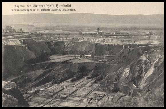 Lignite mine near Wallensen, Germany